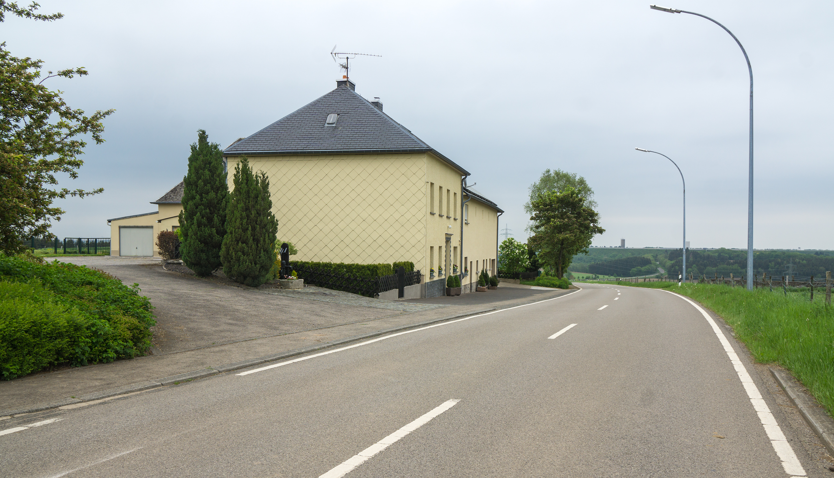 The CR322 in Groesteen near Putscheid in direction to Vianden